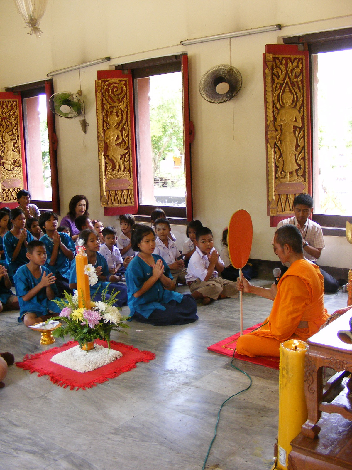 Thian Phansa (big candle used in the temple during the raining) Location: Wat Khung Taphao Ban Khung Taphao, Khung Taphao subdistrict, Mueang Uttaradit, Uttaradit Province, Thailand.